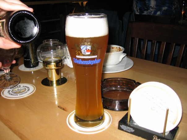 taken and consumed by myself, John McStravick